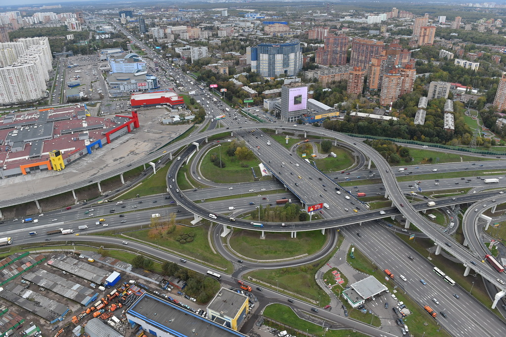 Interchange of MKAD and Leningradskoe shosse